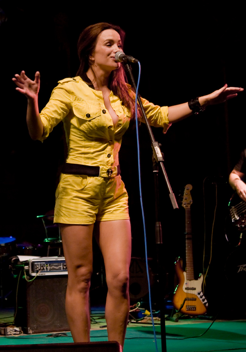 Severina Vučković, Croatian singer and actress at "Karlovac Beer Festival 2008"